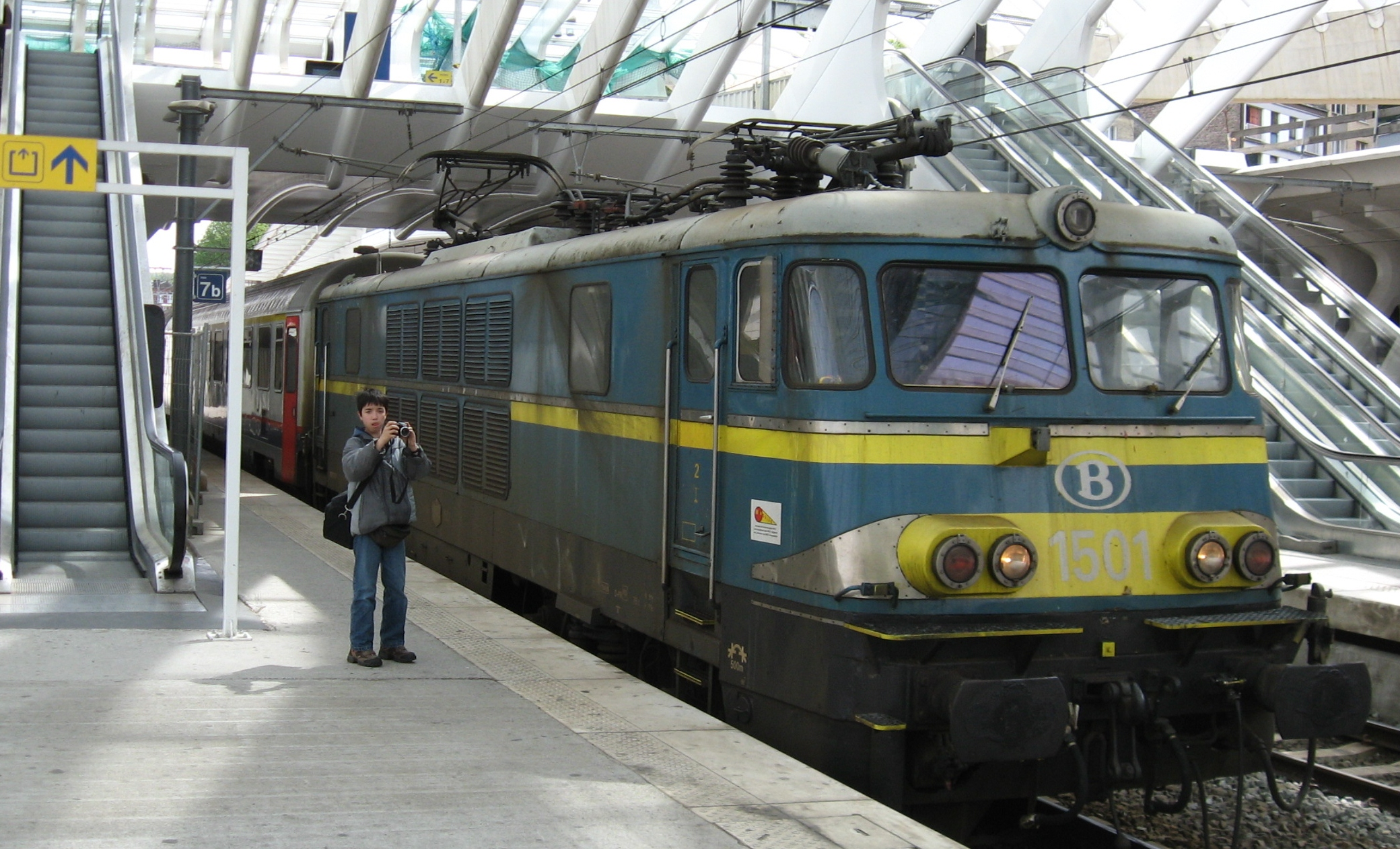 SNCB Multi-voltage Locomotive 1501 in Liège Guillemins